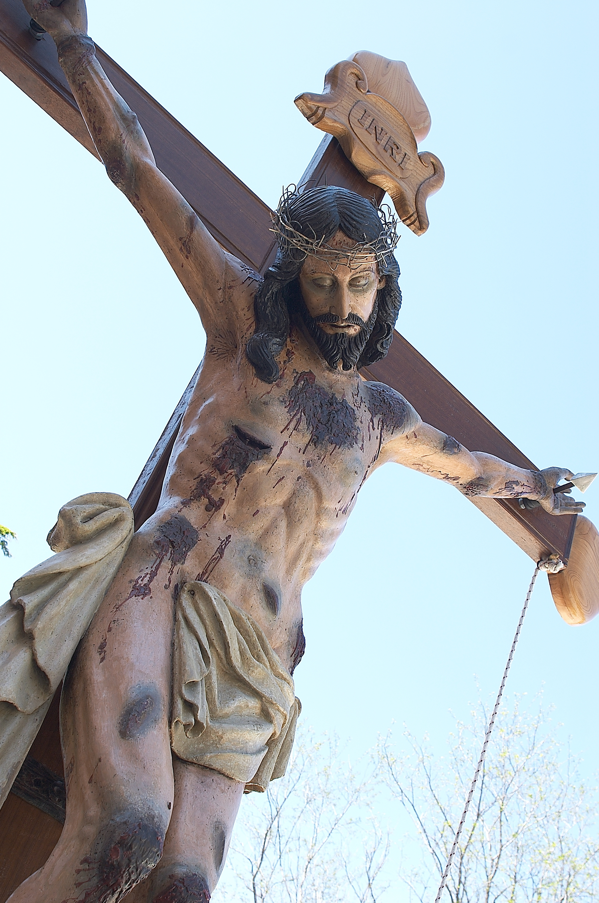 Jesus crucifixed